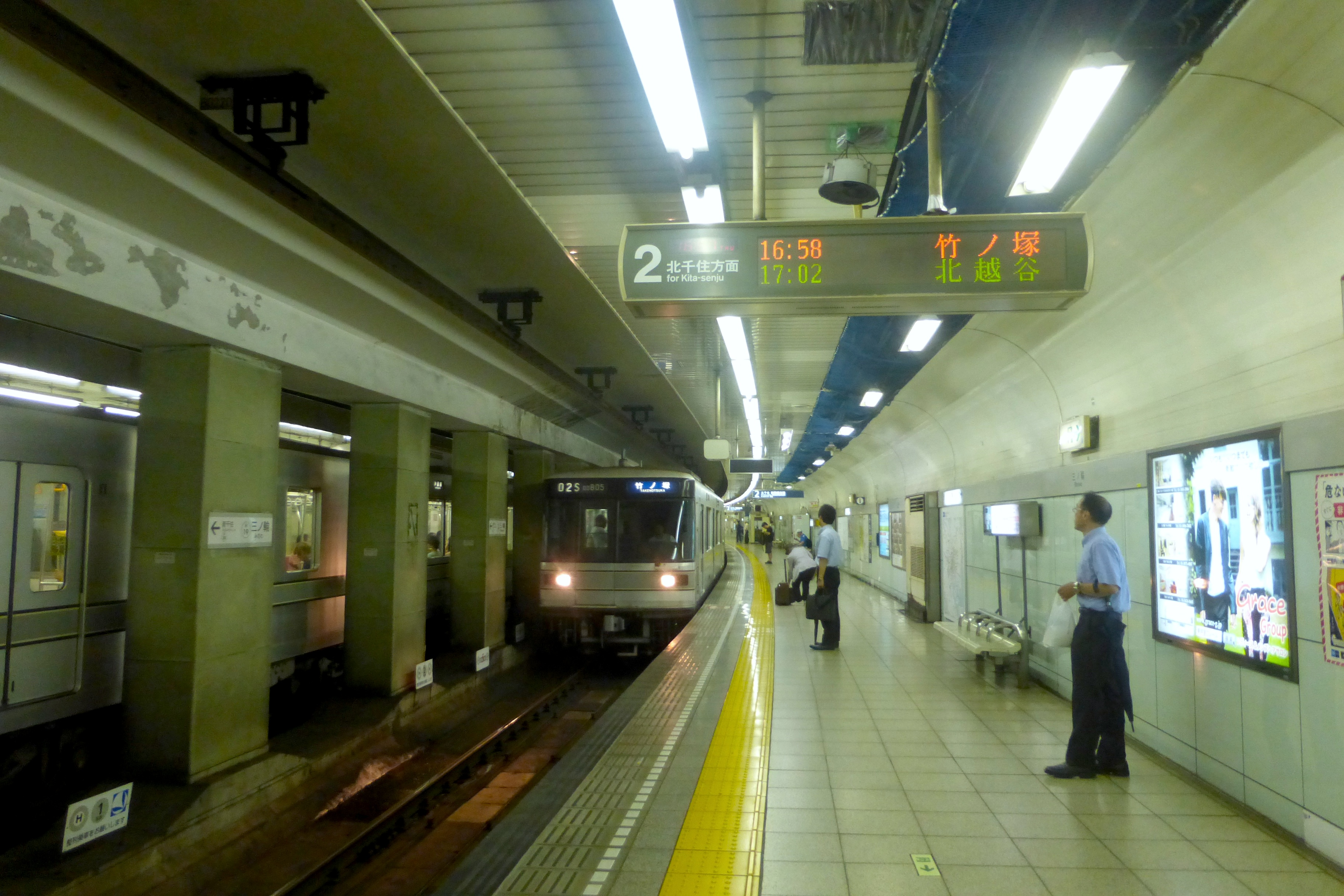 A Tokyo Metro 03 series EMU arriving at platform 2 at Minowa Station on the Tokyo Metro Hibiya Line in Tokyo